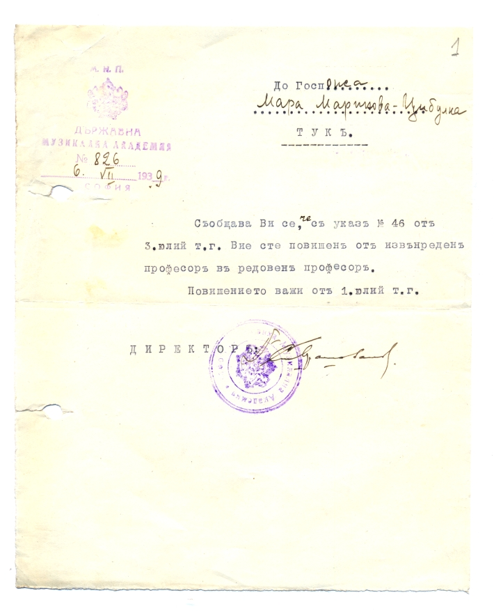 Document No. 826 / 6 July 1939 for the promotion of Mara Cibulka to regular professor of the State Musical Academy of Bulgaria